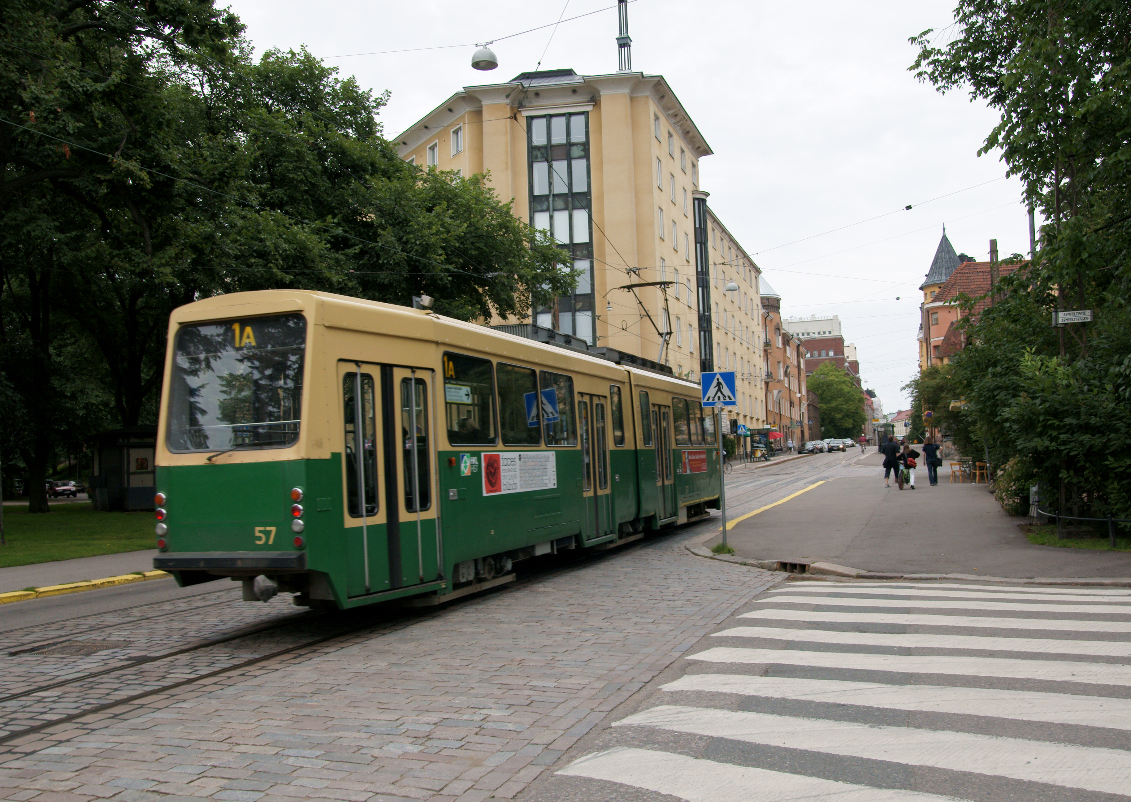 Helsinki tram in Eira.